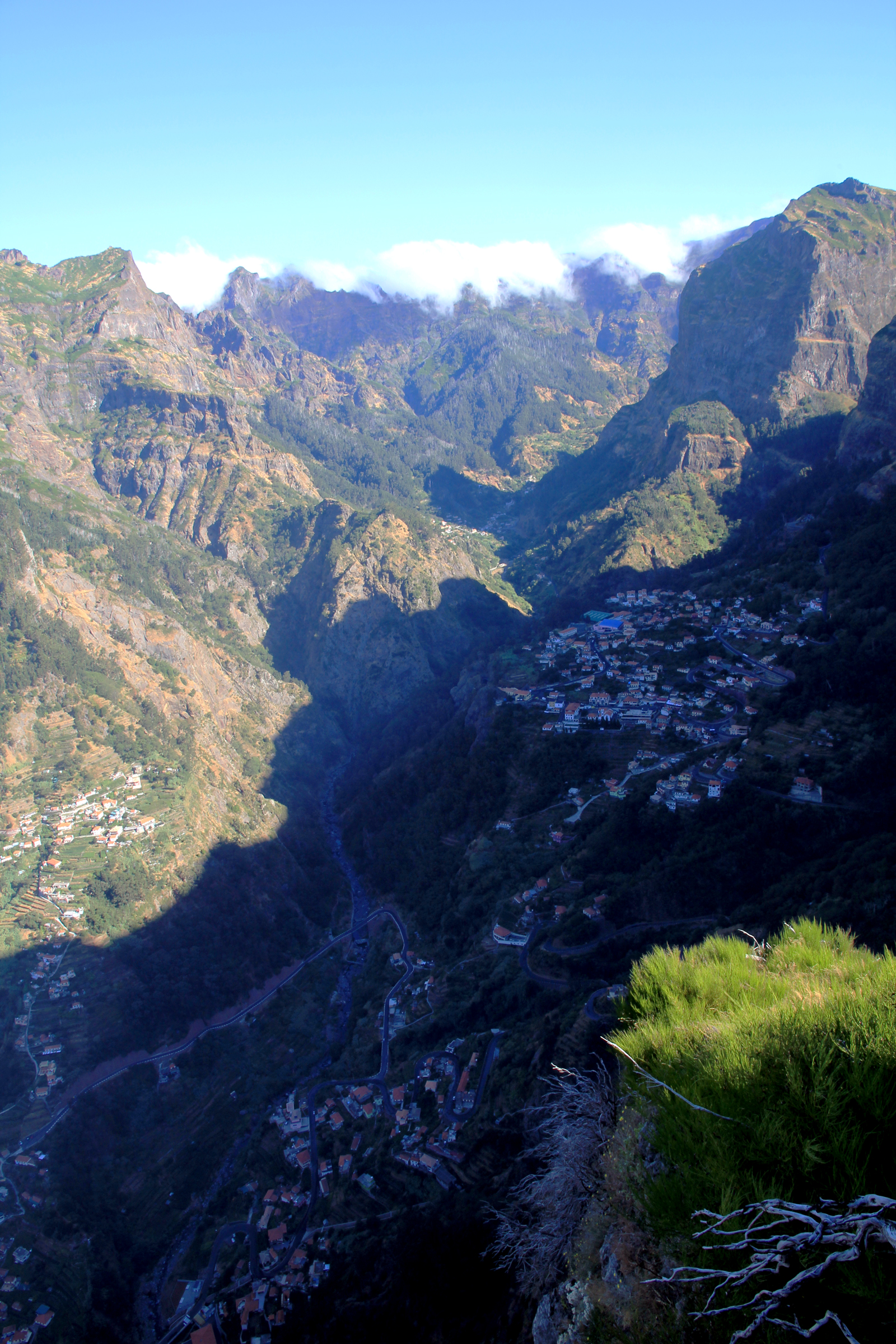 View from near of the point Eira do Serrado on the village Curral das Freiras in the central Madeira